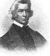 Portrait of Spencer Houghton Cone, former chaplain of the United States House of Representatives